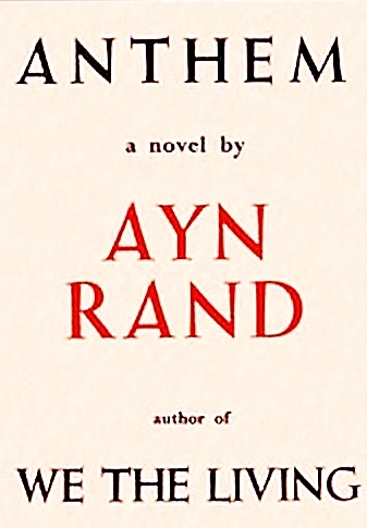 The book cover of Anthem by Ayn Rand